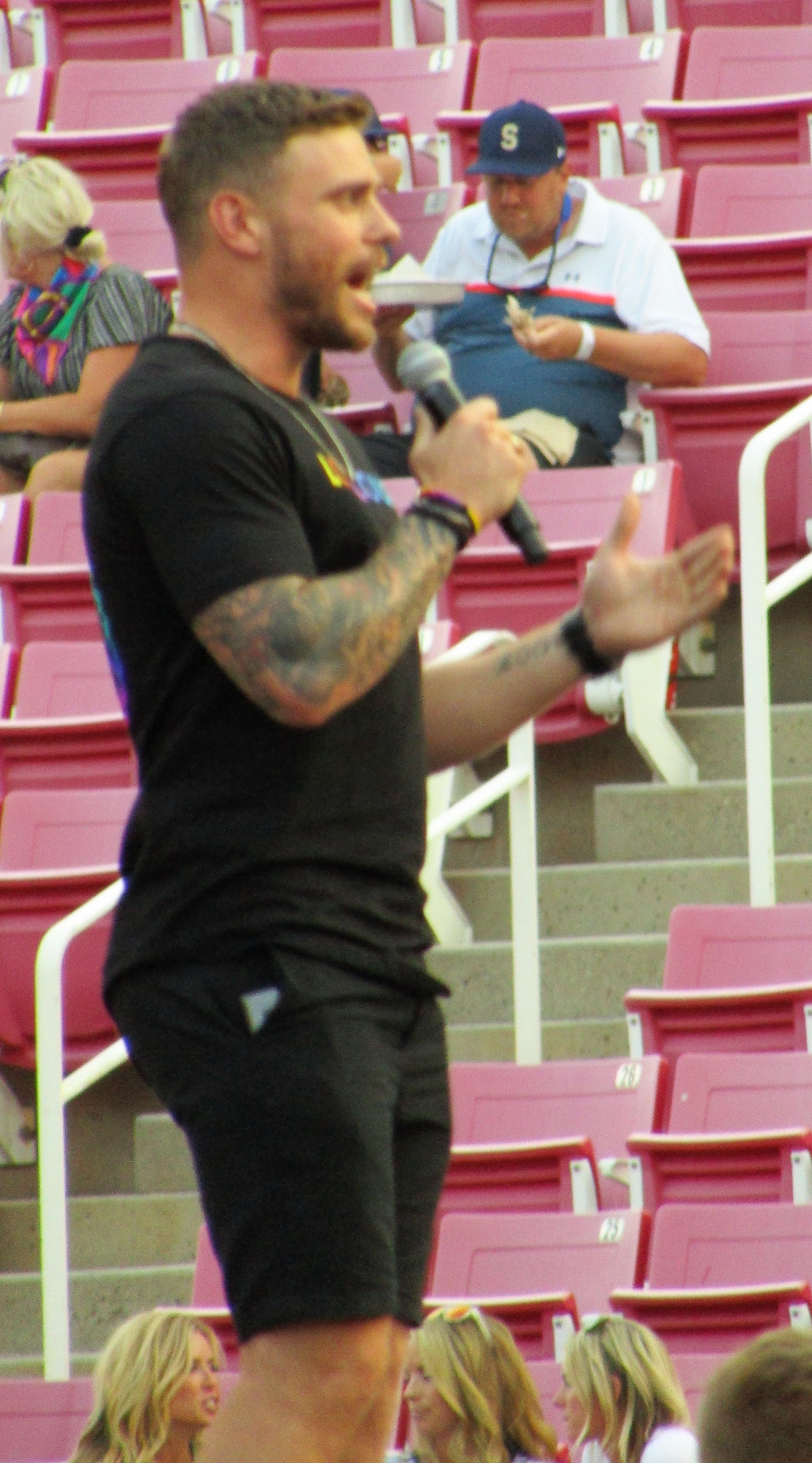 Gus Kenworthy performing at LoveLoud 2018.